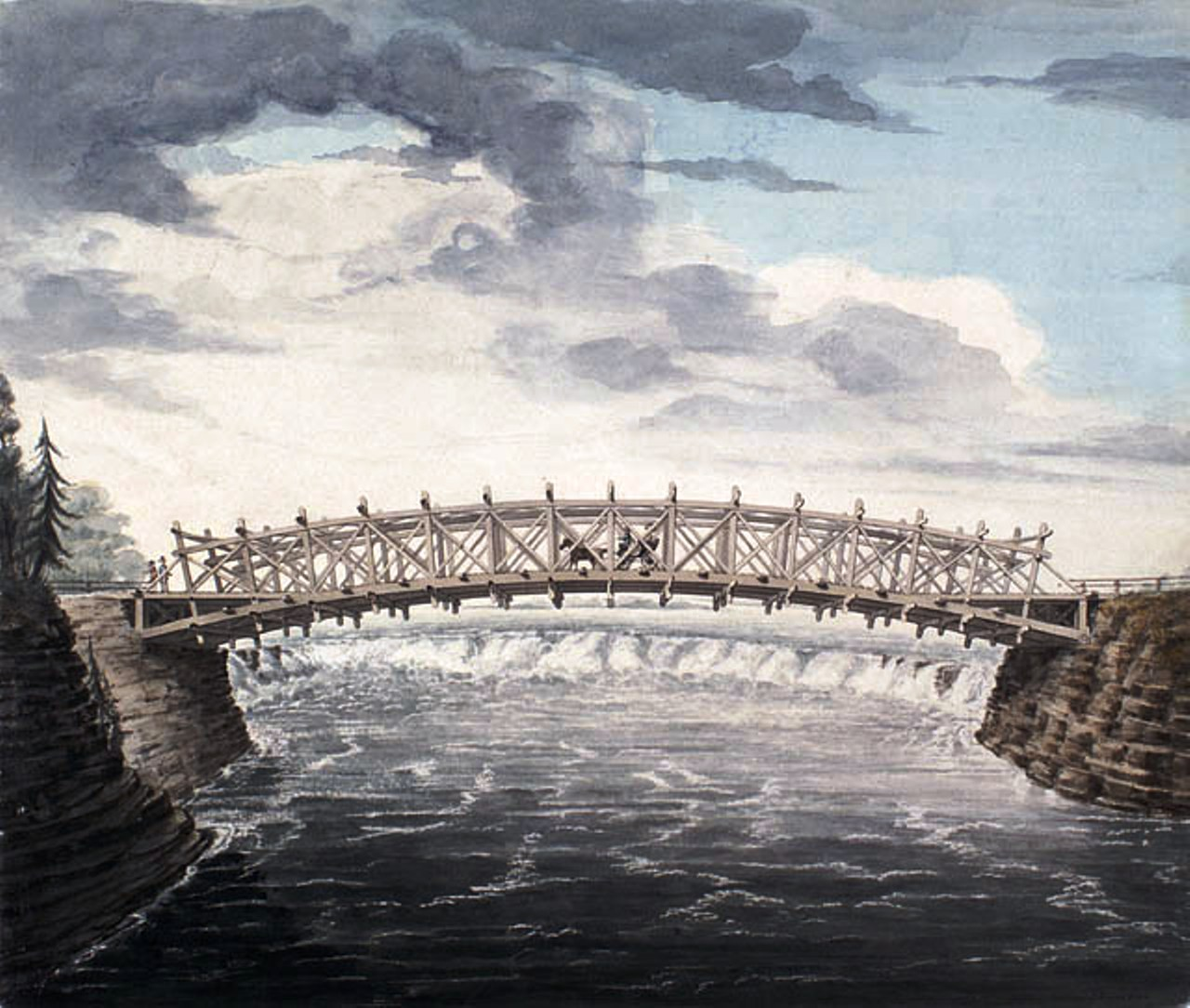 Bridges Erected Across the Ottawa River at the Chaudière Falls, Canada (Truss Bridge)